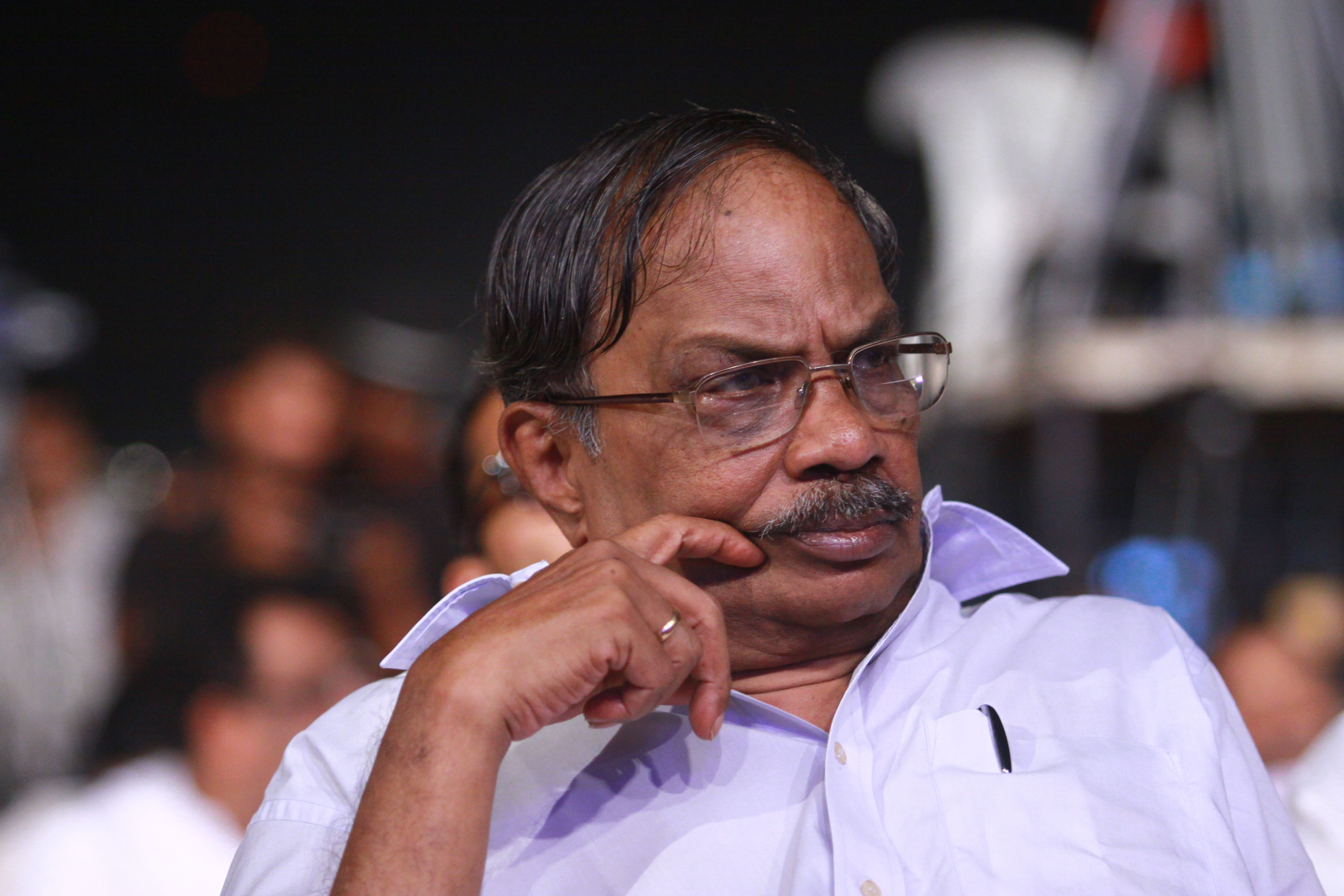 M T Vasudevan Nair is a famous Indian author, screenplay writer and film director.